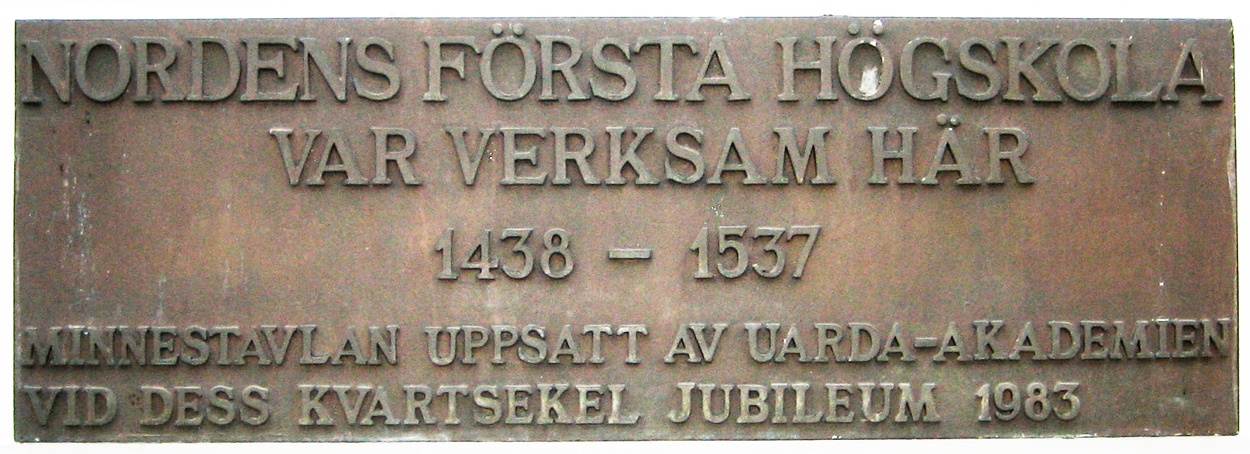 A memorial plaque in Lund, Klostergatan 8, pointing out the spot of the first higher education school in Scandinavia. The sign were put up in 1983 by Uarda-akademien. Photo by the uploader.